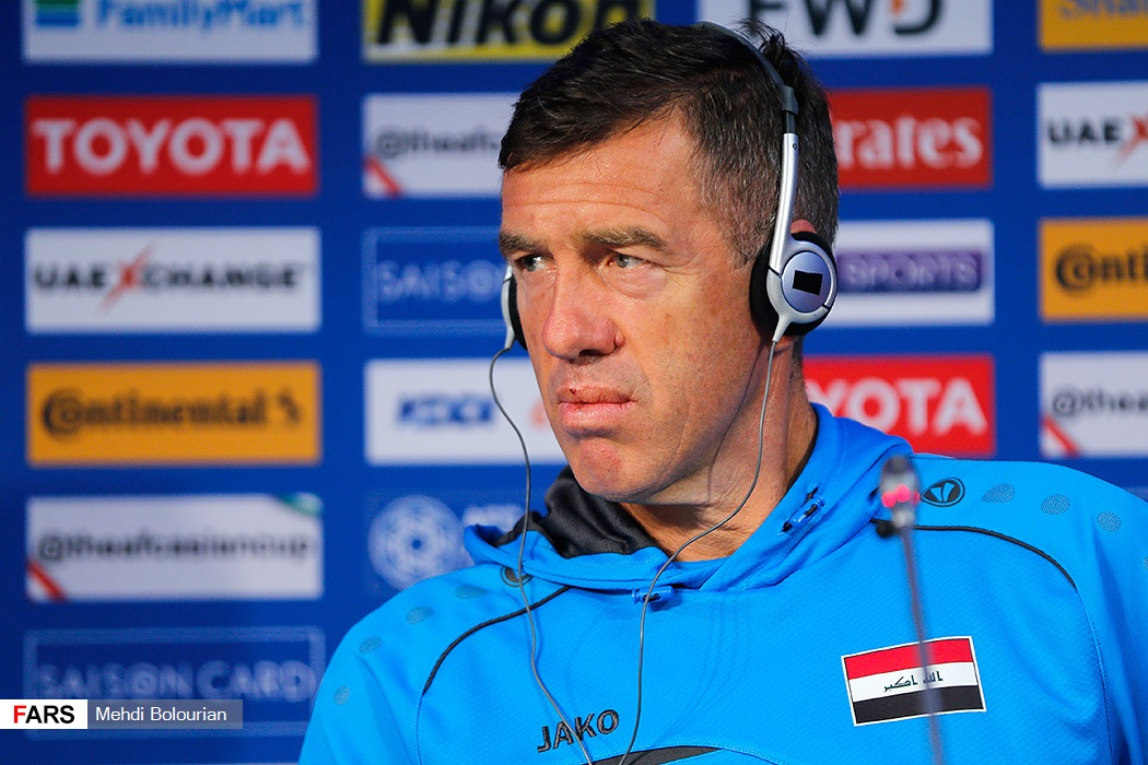 Iran & Iraq Pre-match press conference, 2019 AFC Asian Cup